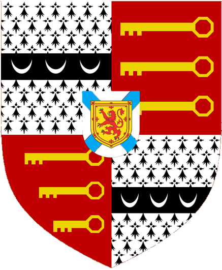 Shield of arms of the Gibson-Craig-Carmichael baronets of Keirhill